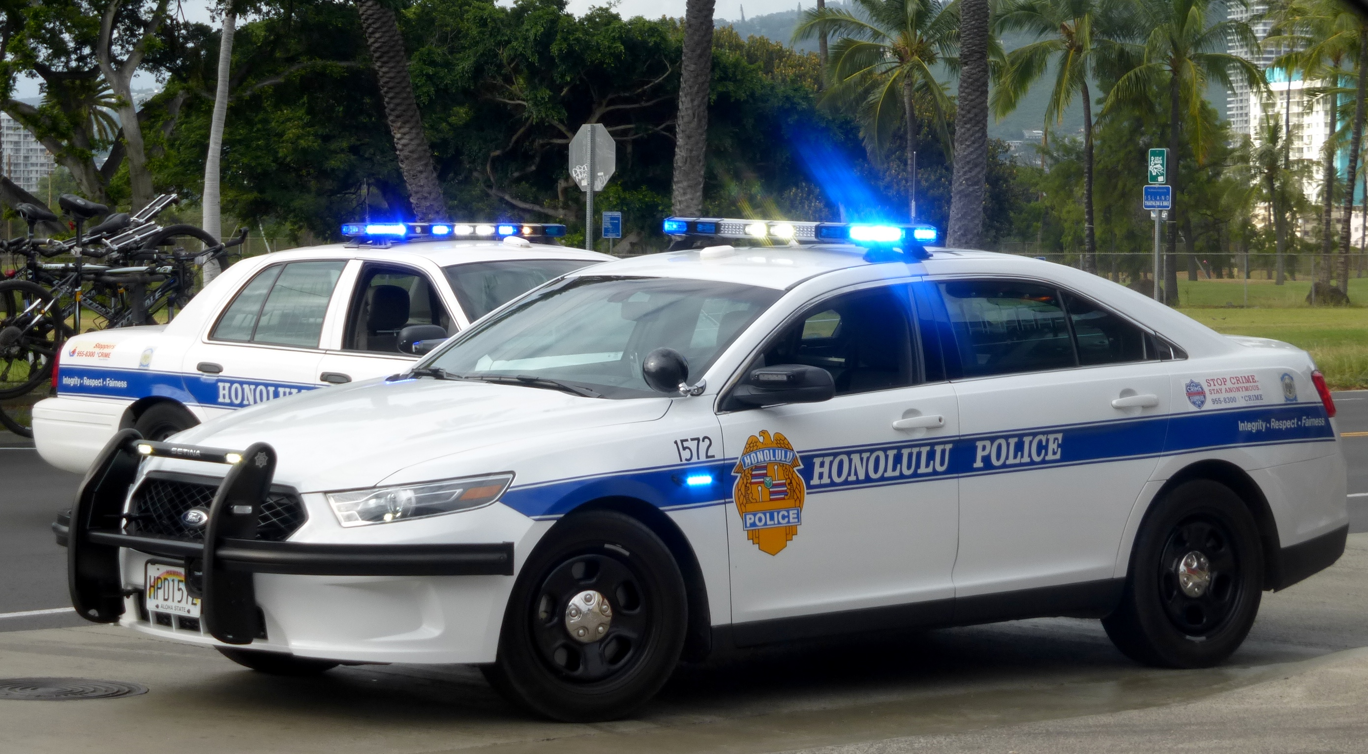 Two Honolulu police cars (in the street investigating an accident)